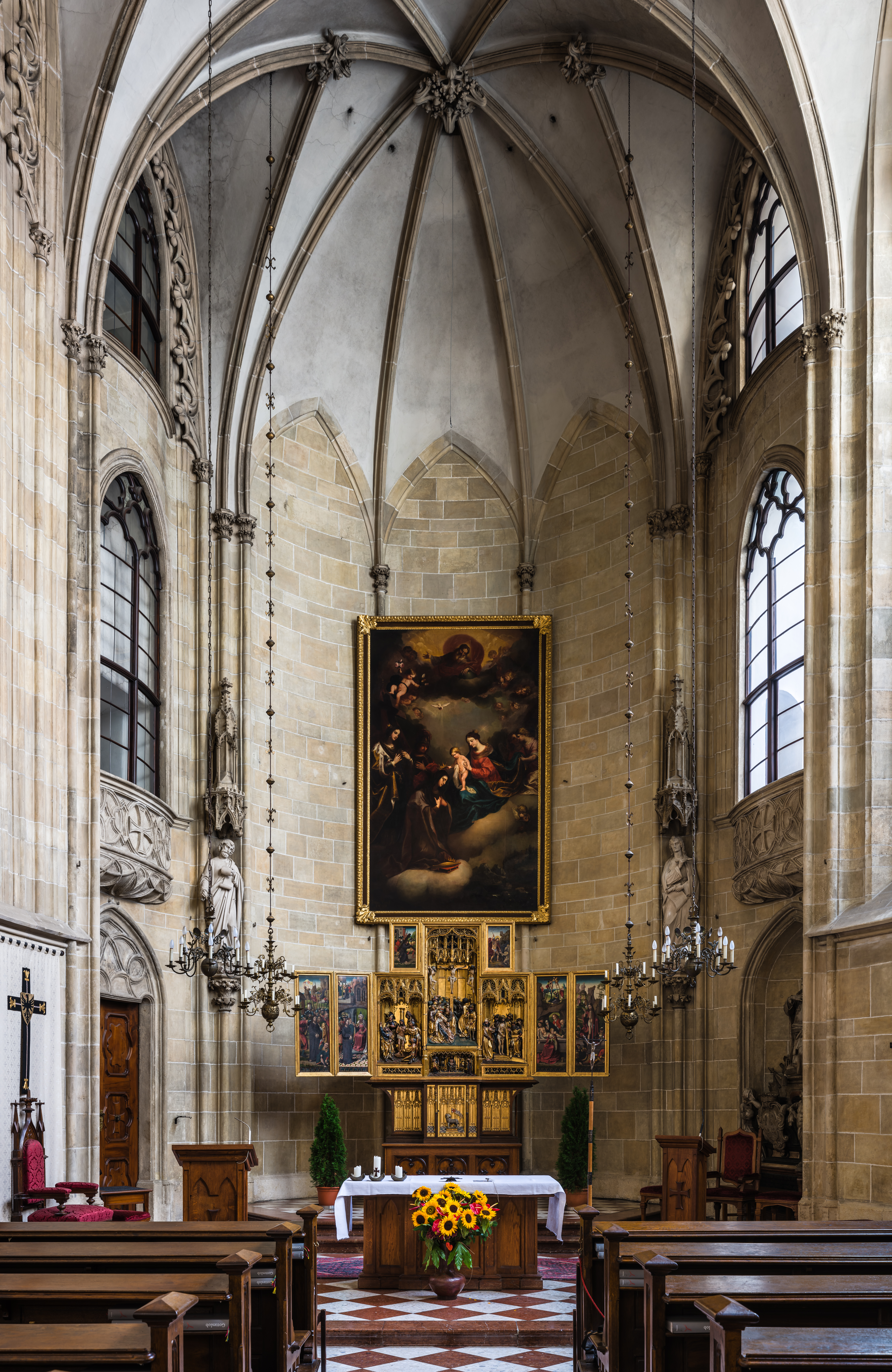 Interior of the Church of the Teutonic Order in Vienna, Austria